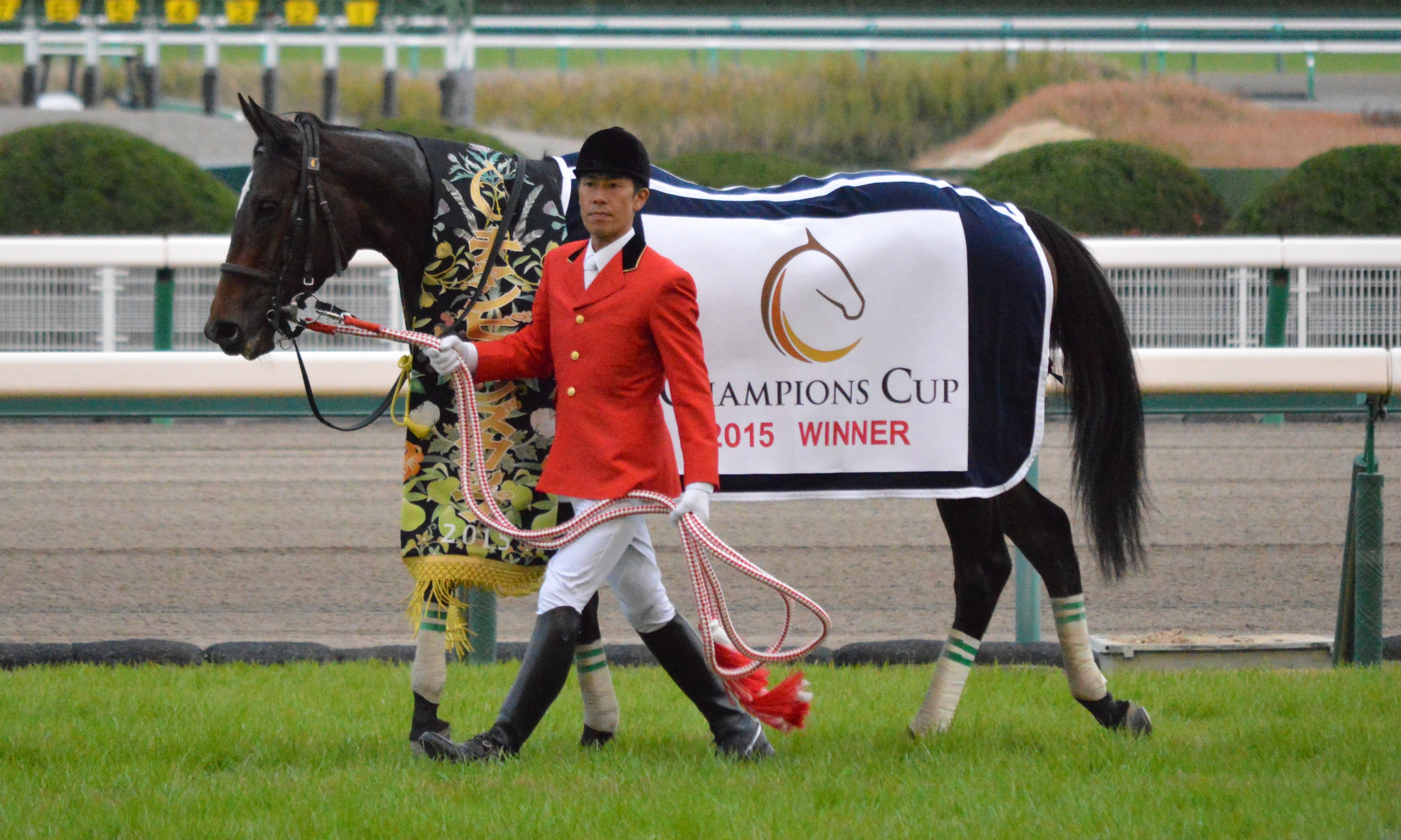 Japanese race horse Sambista at Chukyo racecourse. Chukyo (JPN) 06 Dec 2015 Champions Cup (ex Japan Cup Dirt) (Grade 1) (3yo+) (Dirt) 1m1f Standard RankHorse NameOddsAgeWgtTrainerJockey1stSambista (JPN)65/1M68-9Katsuhiko SumiiMirco Demuro2ndNonkono Yume (JPN)14/5C38-11Yukihiro KatoChristophe-Patrice Lemaire3rdSound True (JPN)116/10H59-0Noboru TakagiTakuya Ono4th - 16th/omission